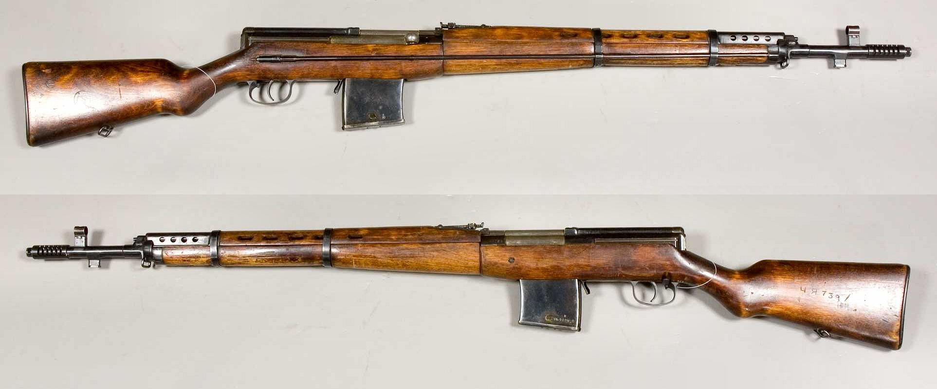 SVT-38 Russian semi-automatic rifle (1938). Caliber 7.62x54mmR. From the collections of Armémuseum (Swedish Army Museum), Stockholm, Sweden.